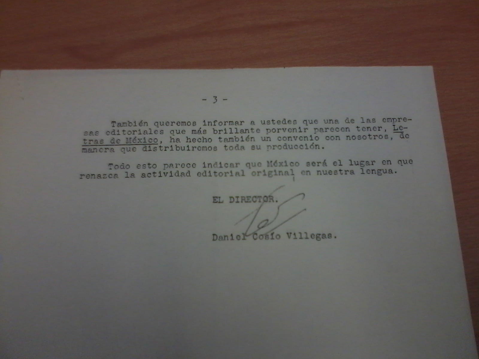 Document regarding Daniel Cosío Villegas (Spanish republican exile in Mexico) (retrieved from the historical archive of El Colegio de México, A.C.). Documentary research about the history of the creation of the institution and the Spanish exiles in Mexico during the Spanish civil war. Documentary collections consulted: Alfonso Reyes (box 6, files 7 and 10) and Daniel Cosío Villegas (box 4, file 12; box 16, file 13).